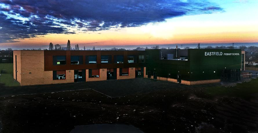 Eastfield New Build